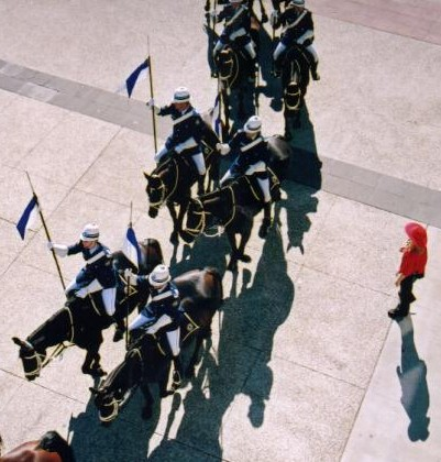 Sydney Royal Easter Show